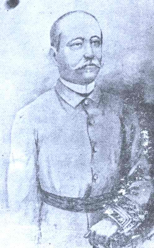 Camilo Polavieja y del Castillo, Marques de Polavieja. Spanish colonial Governor-General of the Philippines, Governor of Cuba, and Governor of Puerto Rico.